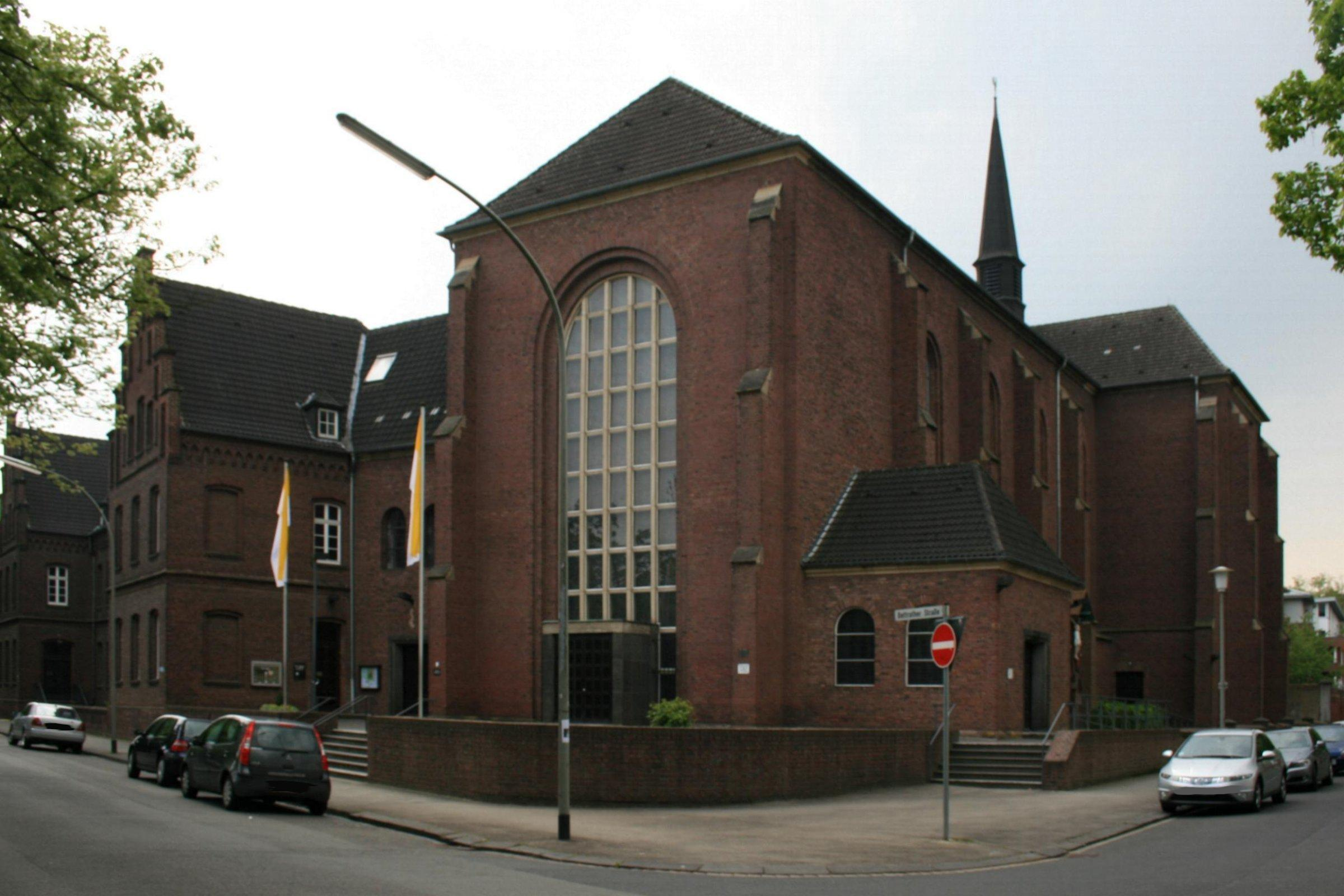 Cultural heritage monument No. B 130 in Mönchengladbach